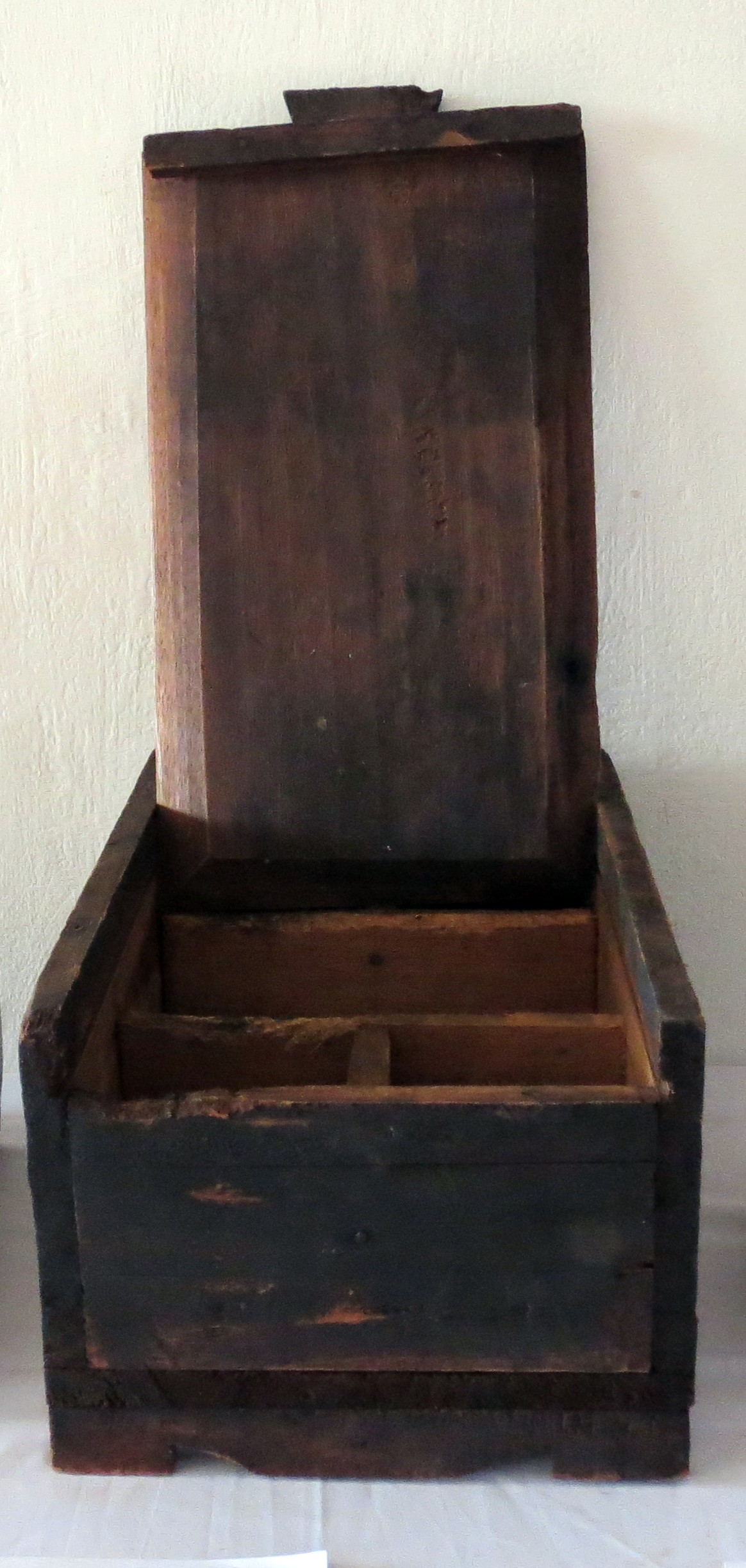 This wooden box was once used in Tamil nadu, to keep necessary groceries for cooking in the kitchen.